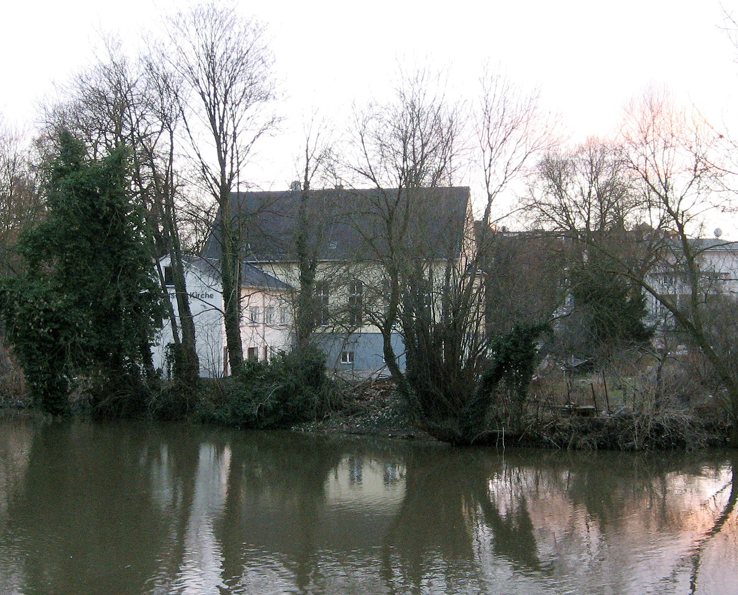 New Apostolic Church Leipzig-Plagwitz, Karl-Heine-Strasse 6, seen from the River “Kleine Luppe”